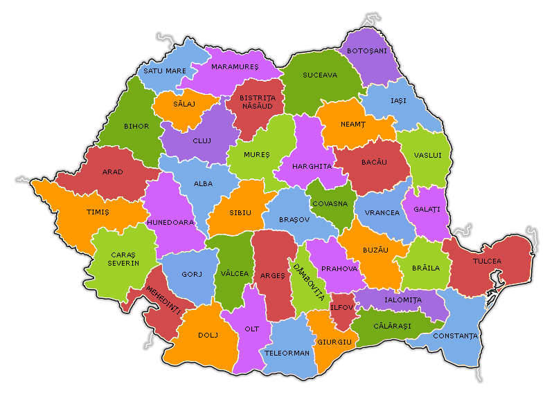 Romania's counties (Judeţe)